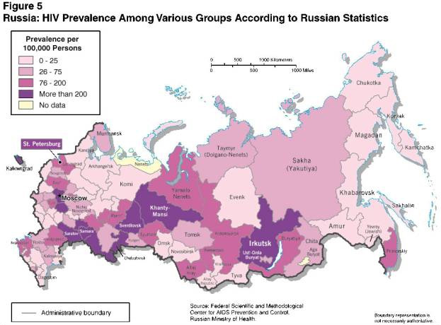 2nd Wave HIV in Russia cicra 2002